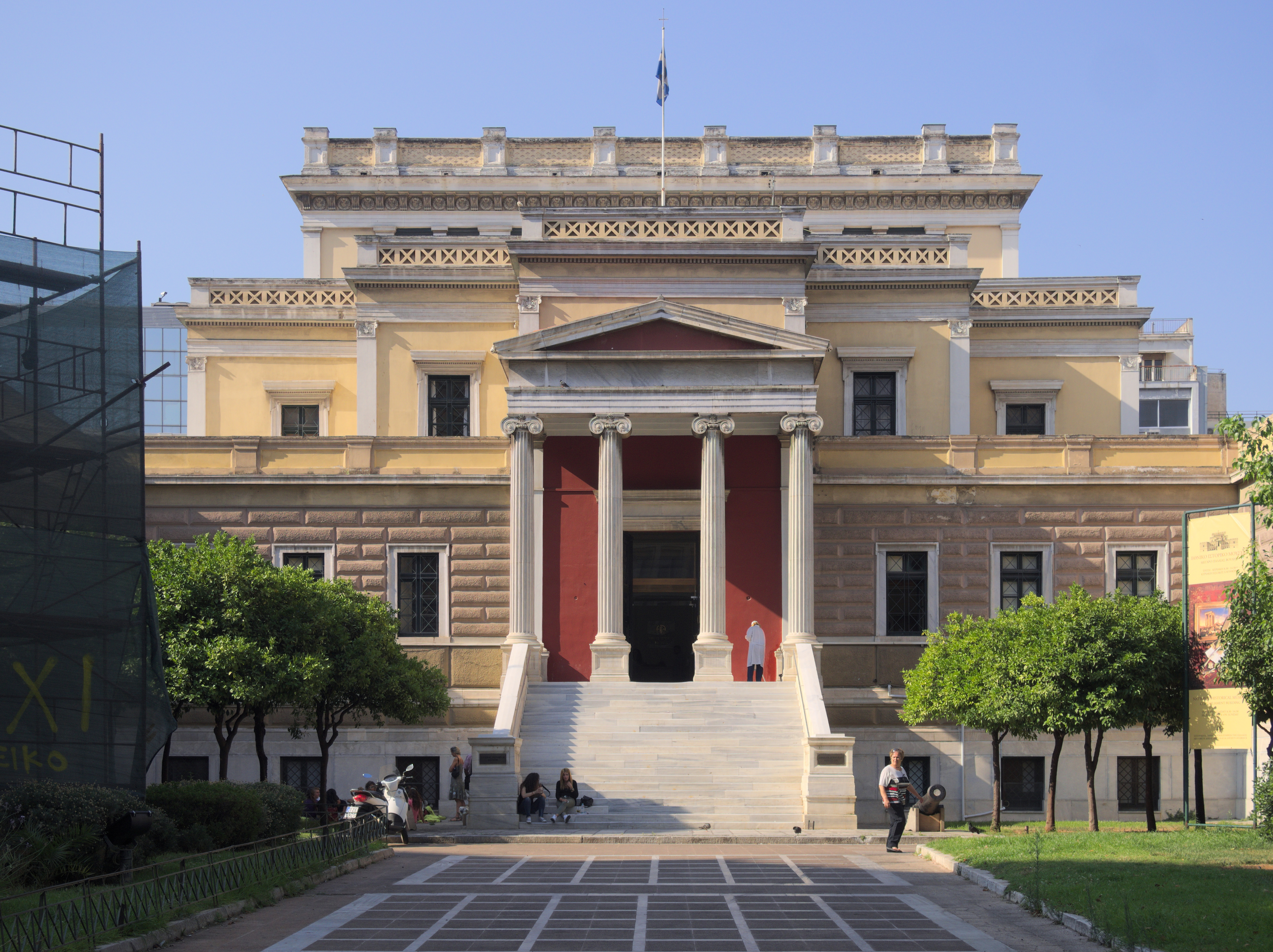 The old greek parliament, main entrance.